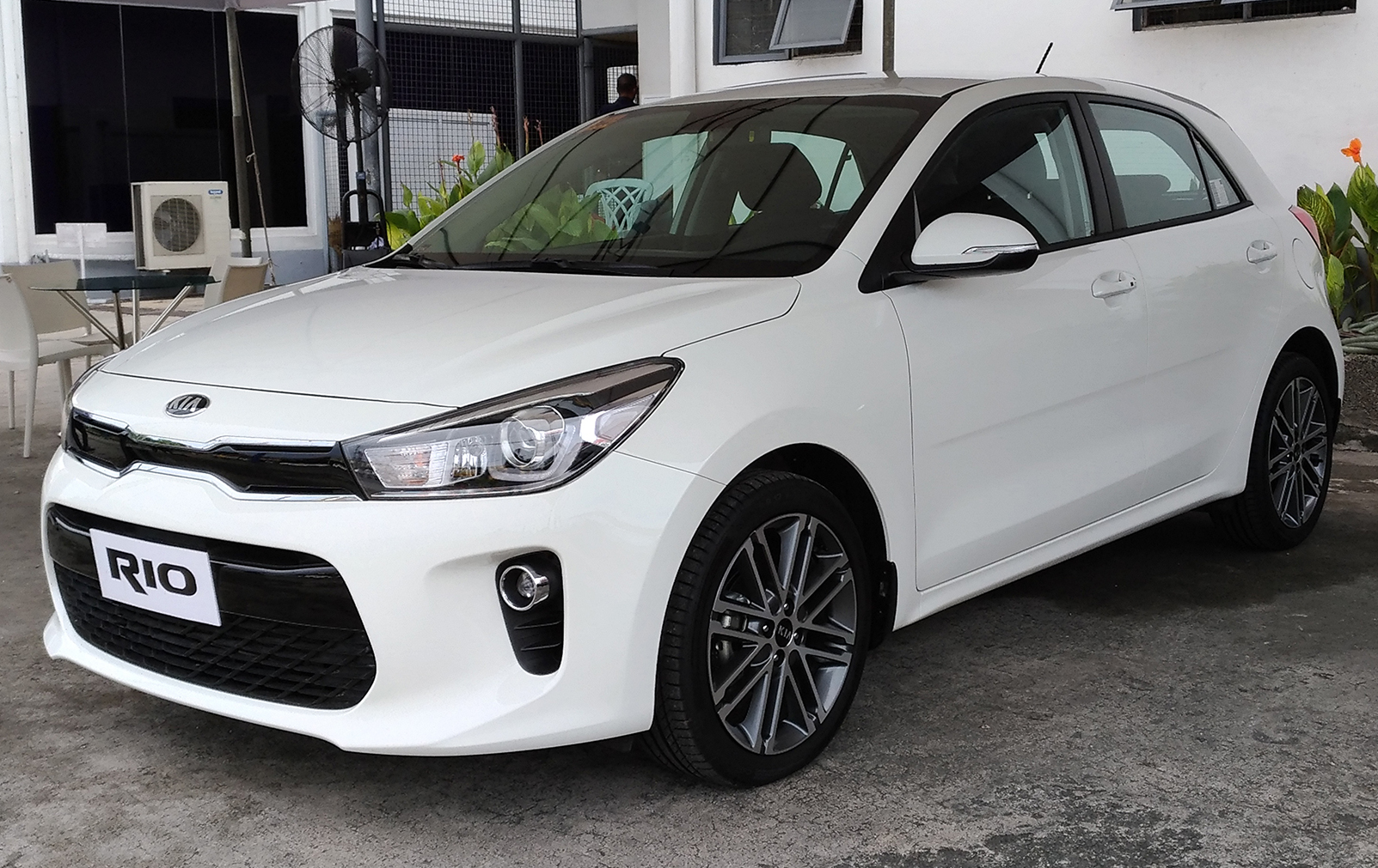 2018 Kia Rio EX Hatchback. Photographed at Kia Motors Pasay, Pasay City, Philippines.